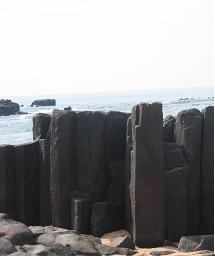 Photos taken by author himself